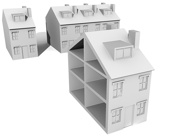 An illustration of two units in a back-to-back housing development